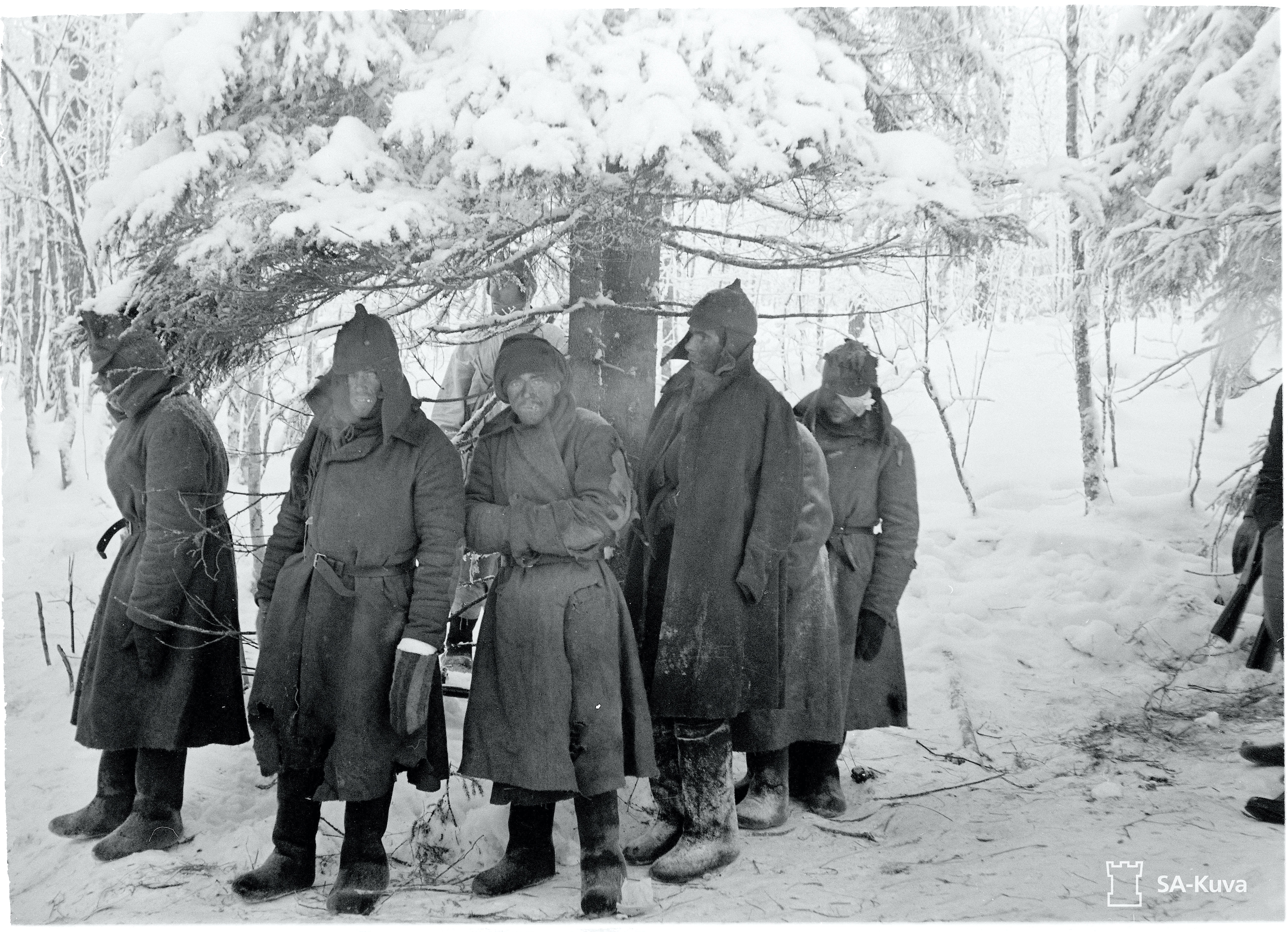 Soviet prisoners of war warming in freezing cold. The prisoners were caught in Winter War between Finland and Soviet Union during the Lagoda battles of encirclement at the western Lemetti motti. Picture taken February 2nd 1940. Picture by Sa-kuva.